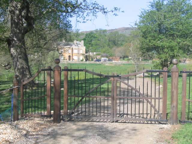 Chideock Manor Workers on Chideock Manor farm once made the famous Chideock Cyder To see some 360° Panoramas of Dorset please visit this